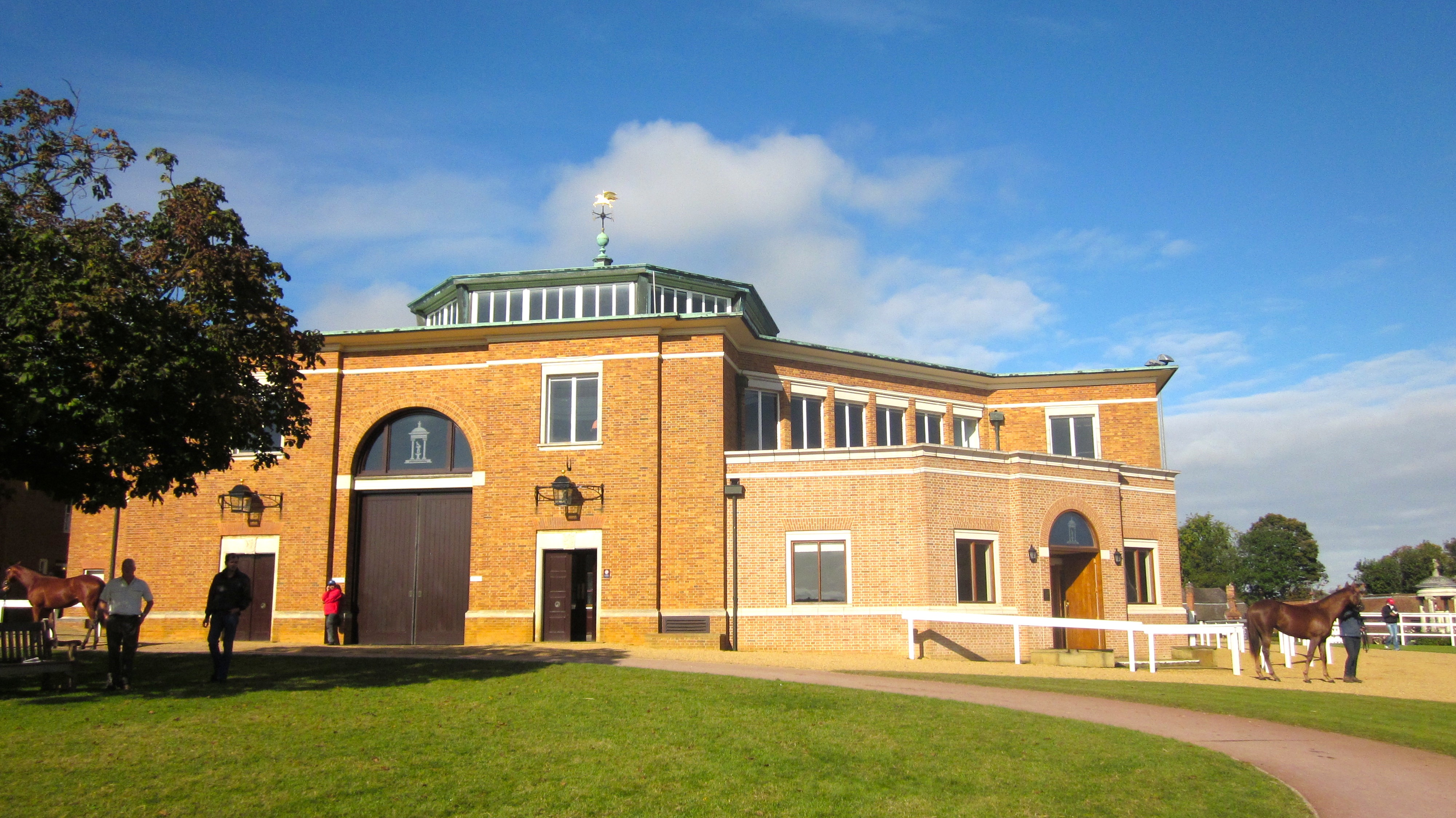 A view of the Tattersalls sales ring in Newmarket, Suffolk, UK.